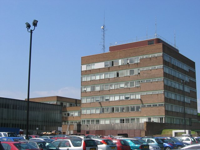 Police HQ. Lothian and Borders Police "Head Office", Fettes.